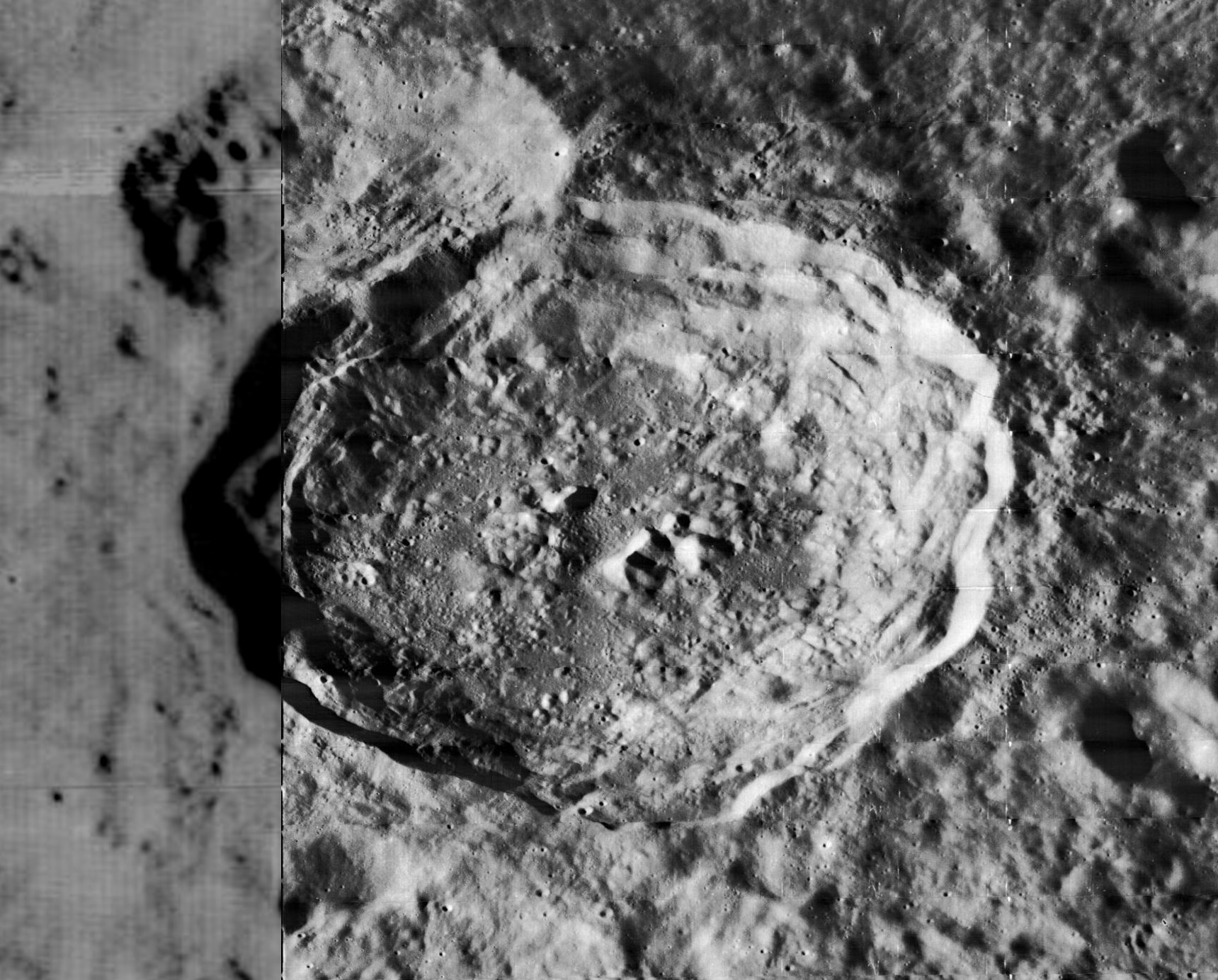 Sharonov, on the far side of the moon. This is a mosaic of a scaled-up medium resolution (left quarter) frame and a high resolution frame, completed to show the entire crater.